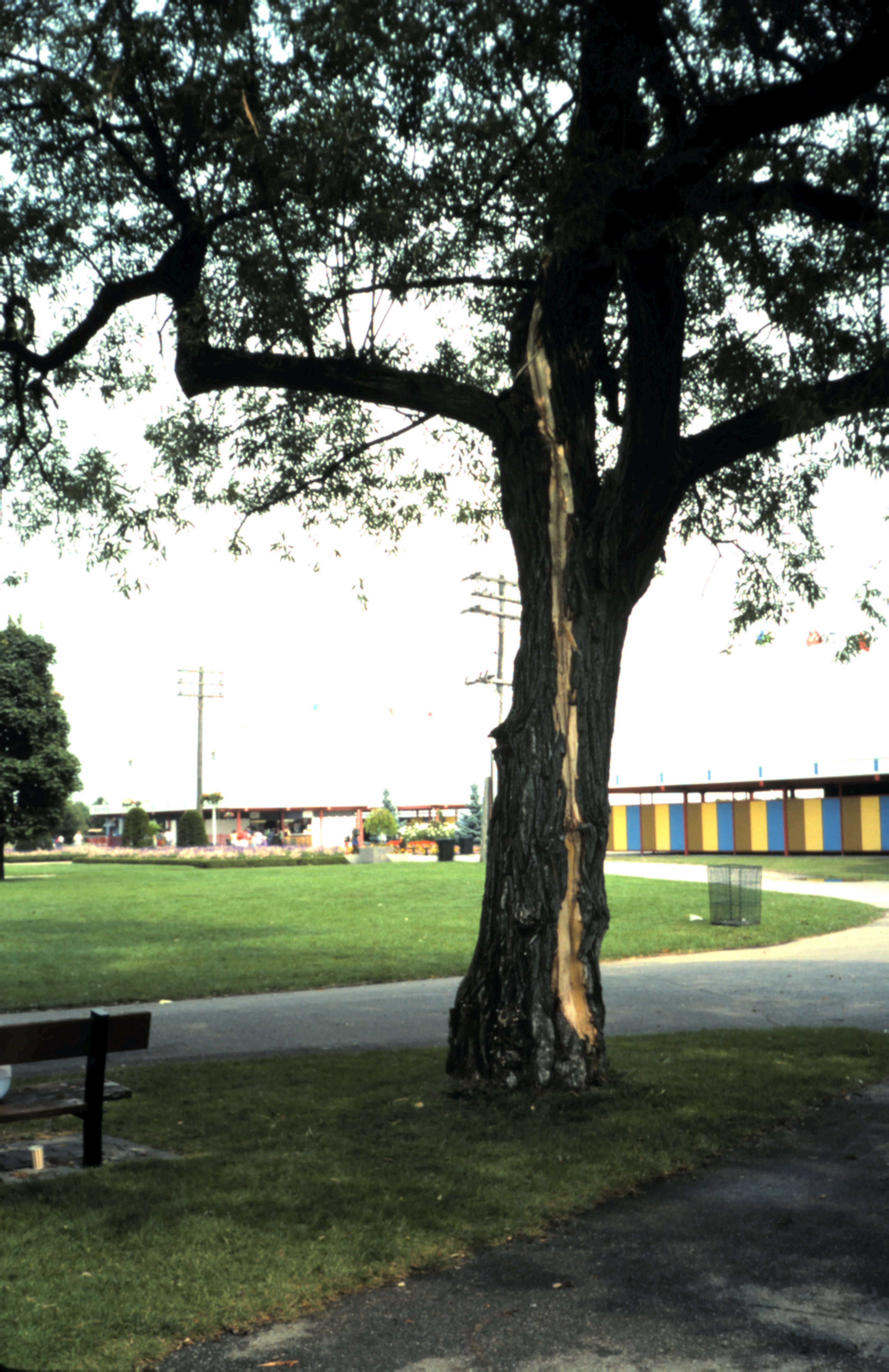 This tree in the Toronto Islands had just been struck by lightning minutes earlier during a very brief but intense thundershower when the picture was taken. The charge travelled down the tree into the ground causing a very visible wound in the tree's bark. The photographer was right nearby at the time of the strike and experienced a thunderbolt. Position: 43°37'00.8"N 79°22'24.2"W